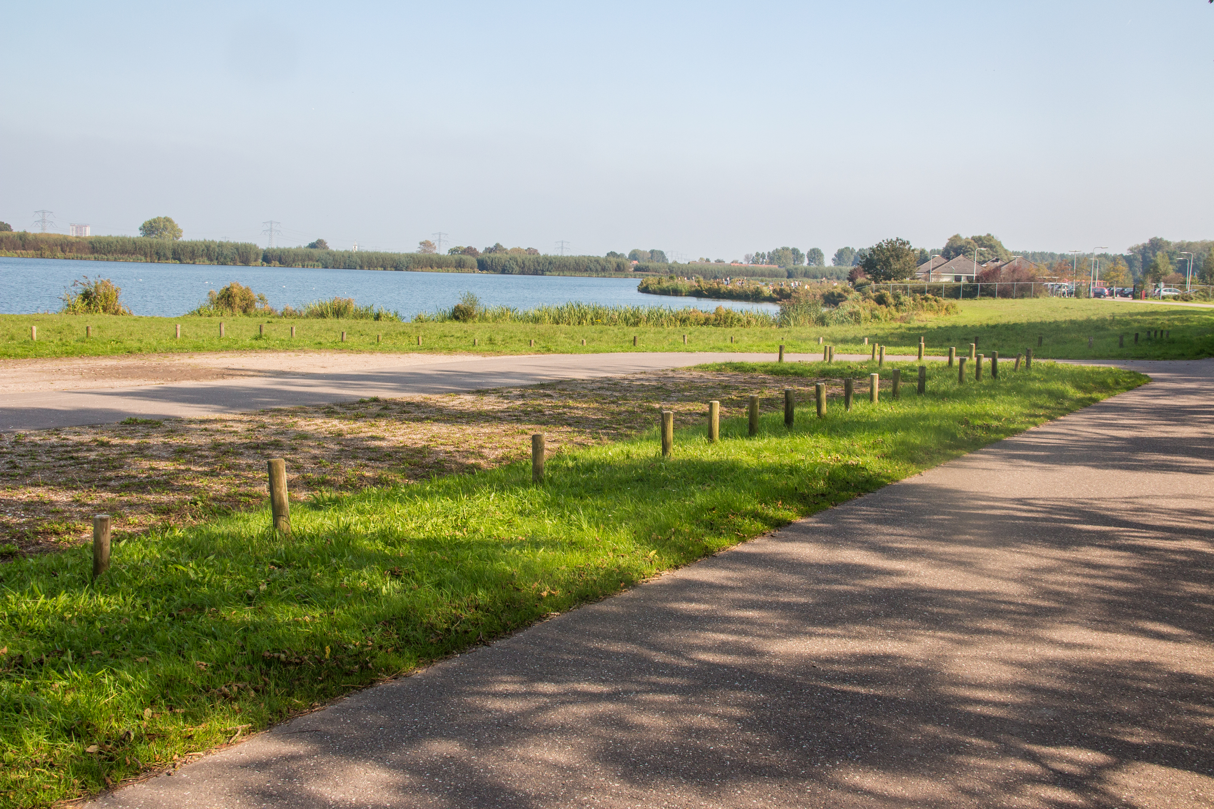 Water and recreation Bernisse